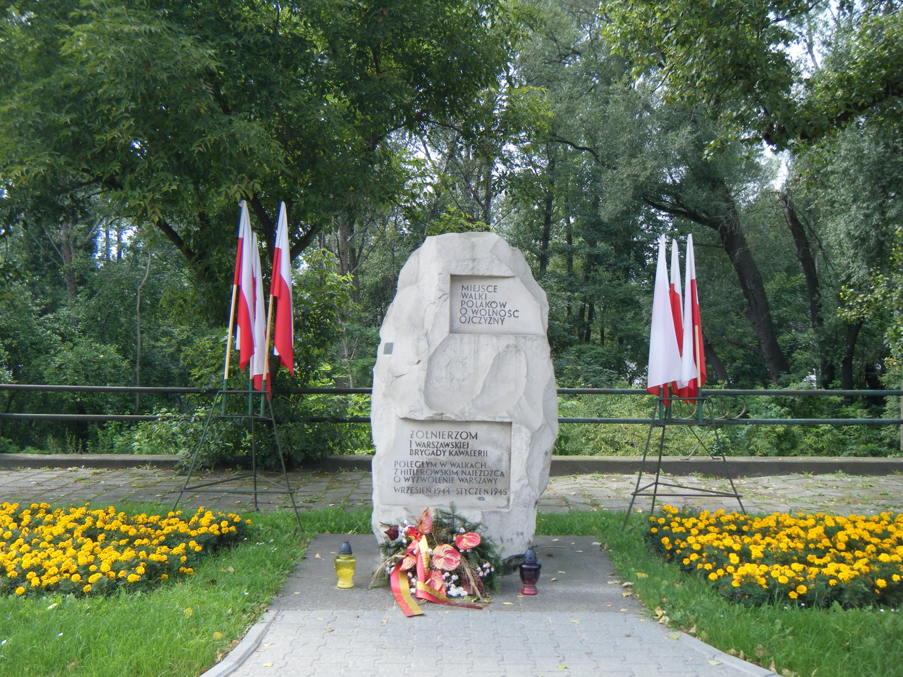 The stone commemorating soldiers of the 1.st Warsaw Cavalry Brigade (Wybrzeże Szczecińskie, Warsaw)